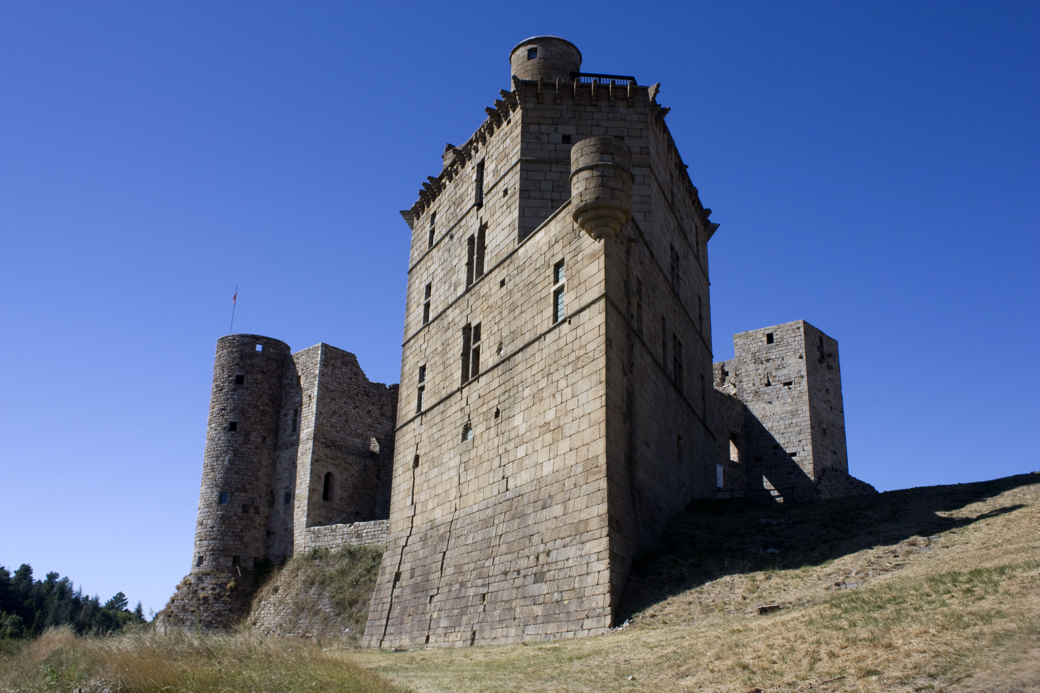 Castle of Portes, on the Regordane way, near Alès!